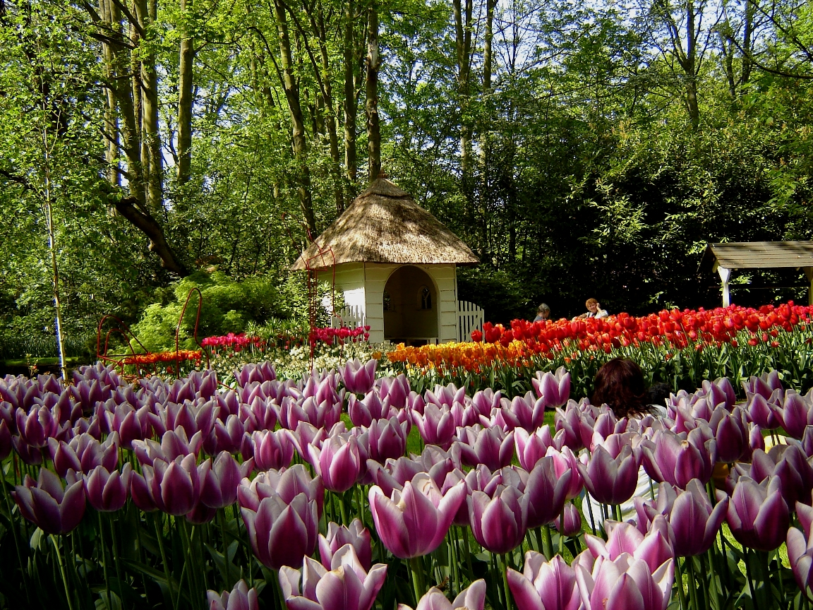 Keukenhof Tulip Gardens in Lisse, the Netherlands